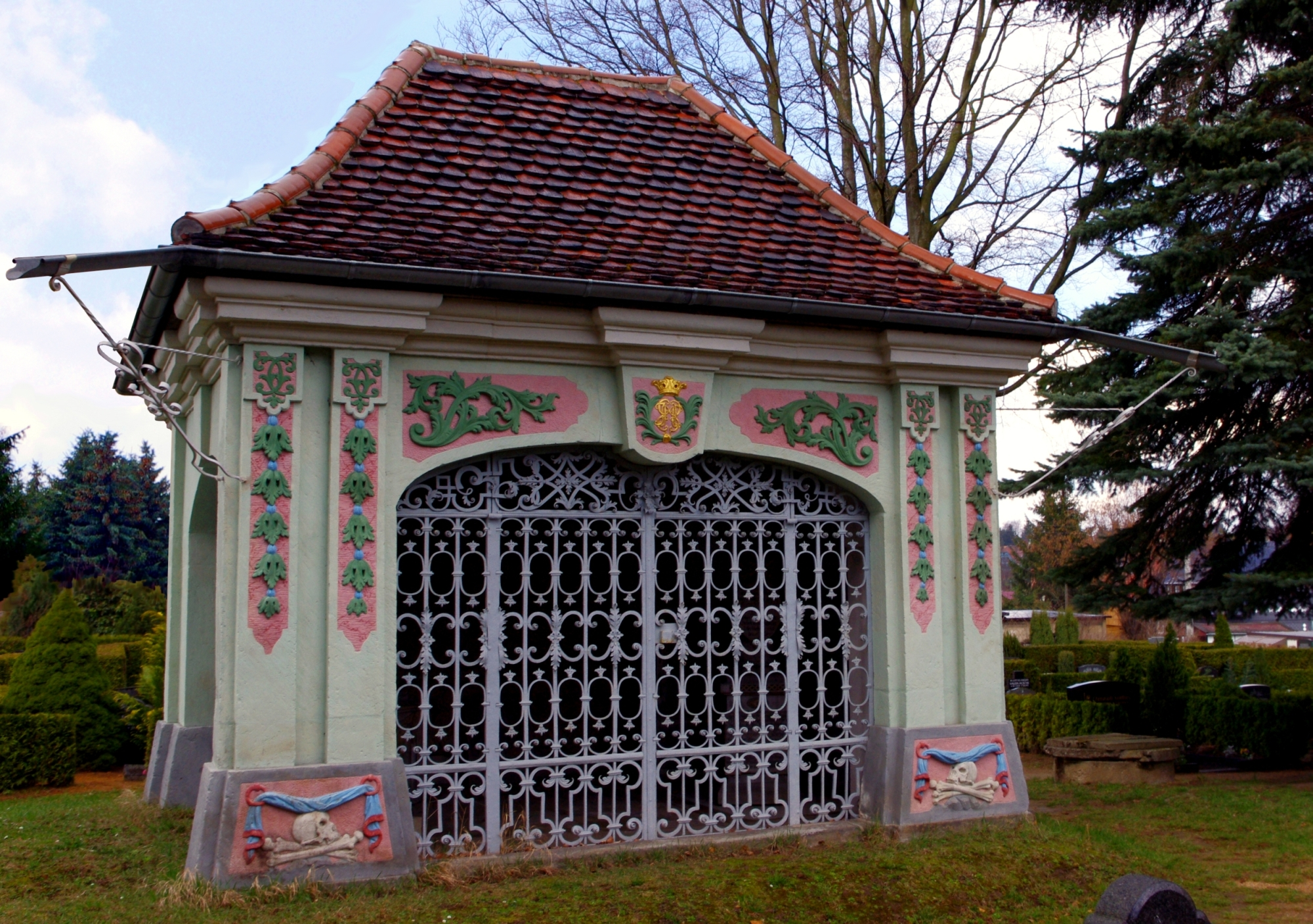 The Göhlsche Gruft on the graveyard of Niederoderwitz.